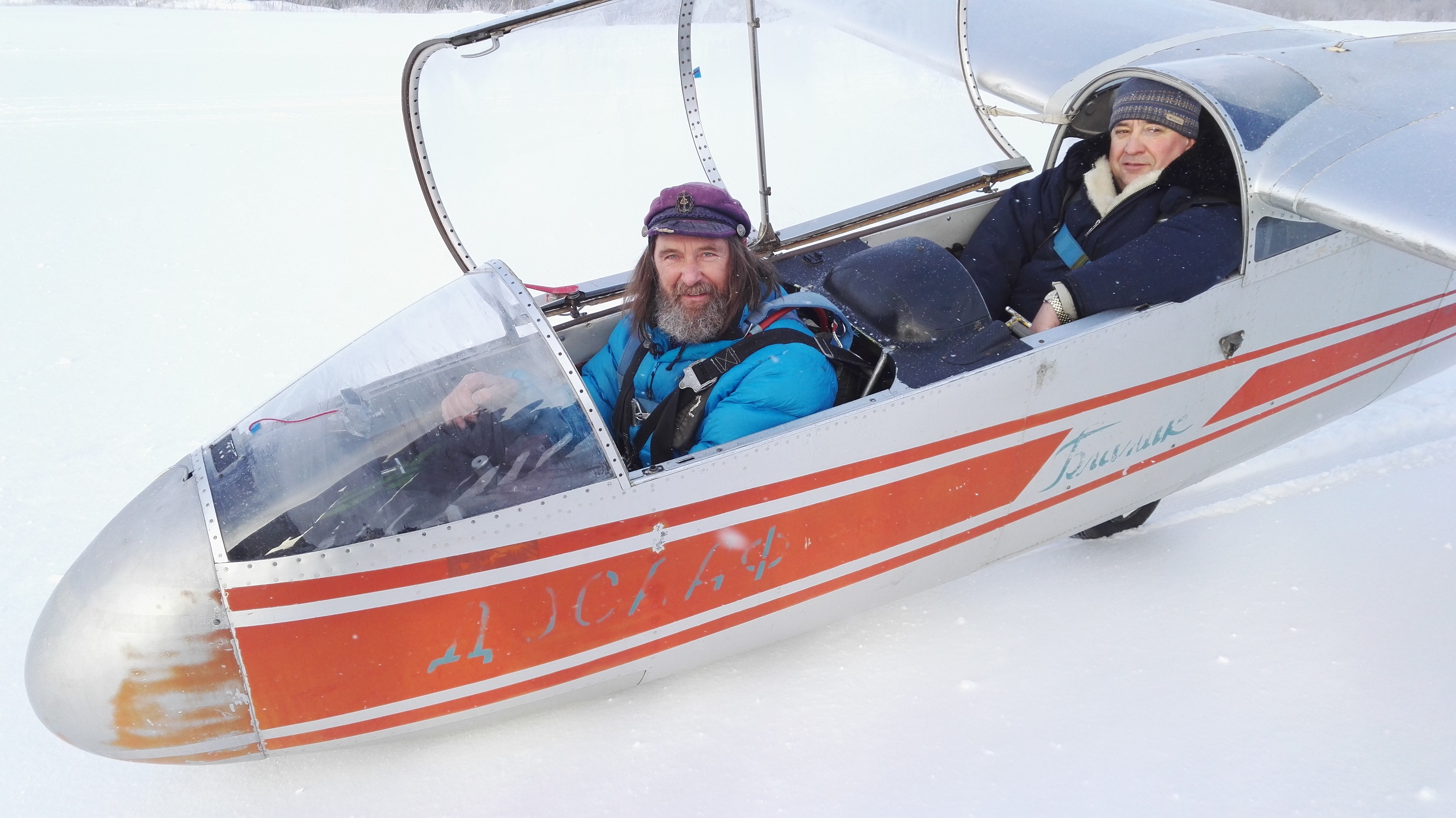 Fyodor Koyukhov and Sergey Ryabchinskii seated in a Blanik L-13 glider